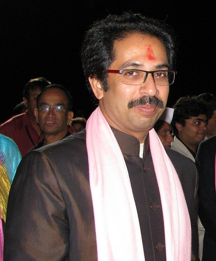 Photo of Uddhav Thackeray, taken at BMM Convention 2009 in Philadelphia, PA.